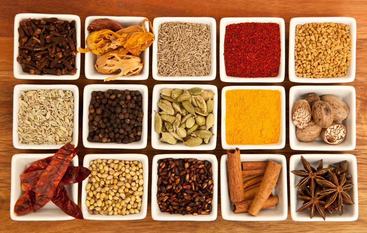 An array of Indian Spices commonly used in Indian and south asian cuisine